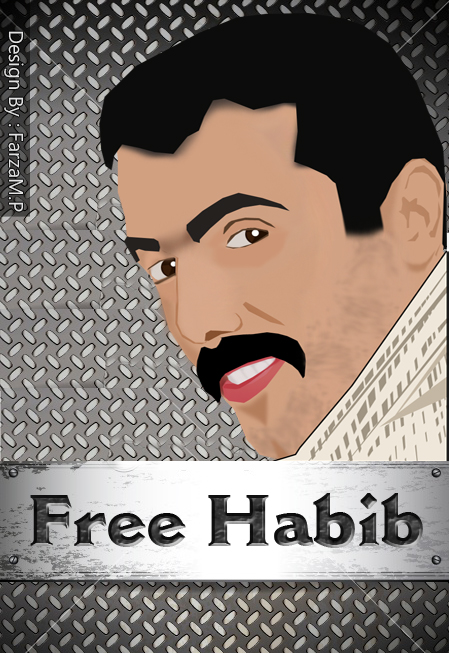 Save HABIB LATIFI , ArtWork By FarzaM Parto